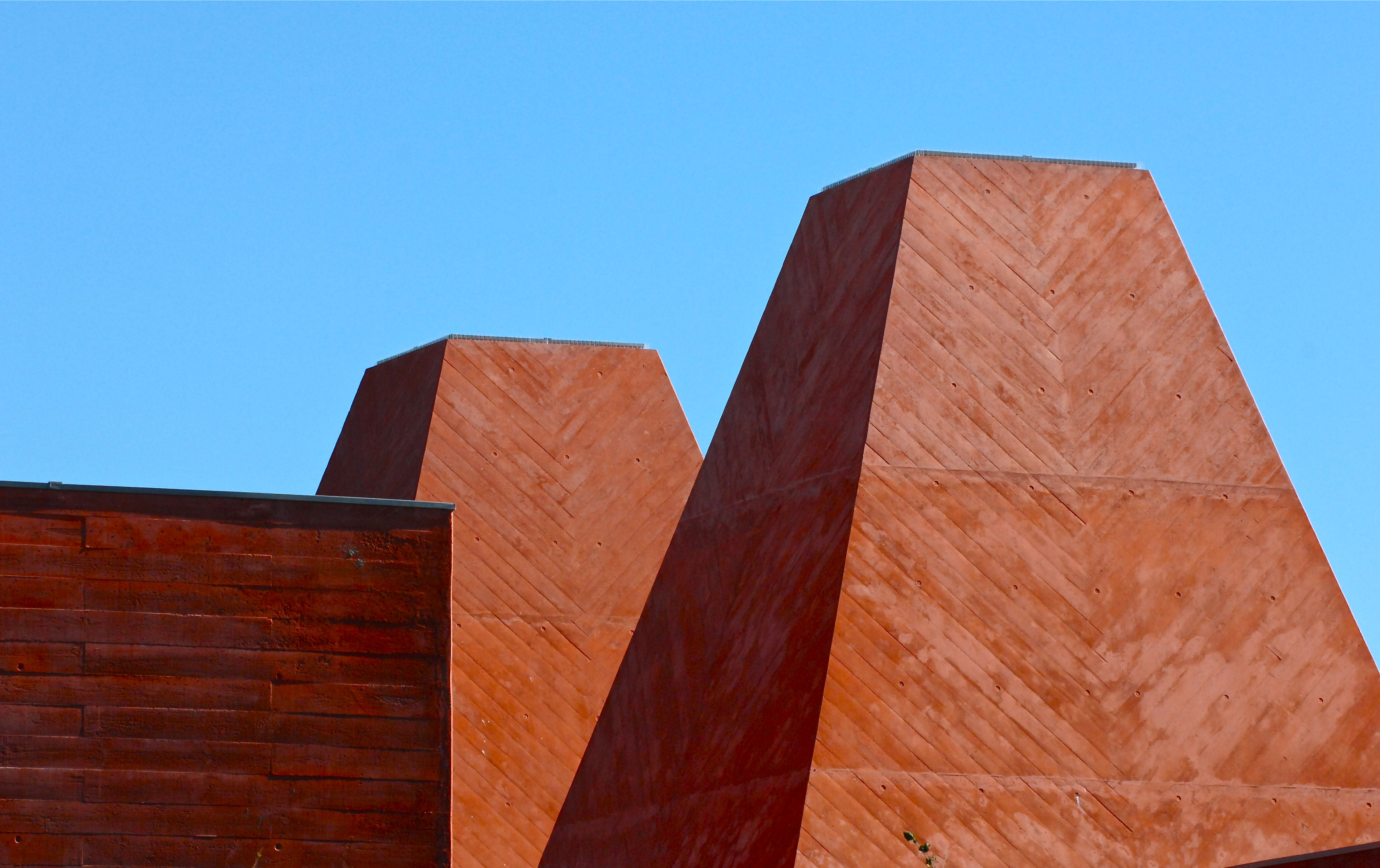 Paula Rego Museum, Cascais, Portugal. Architect: Eduardo Souto de Moura.